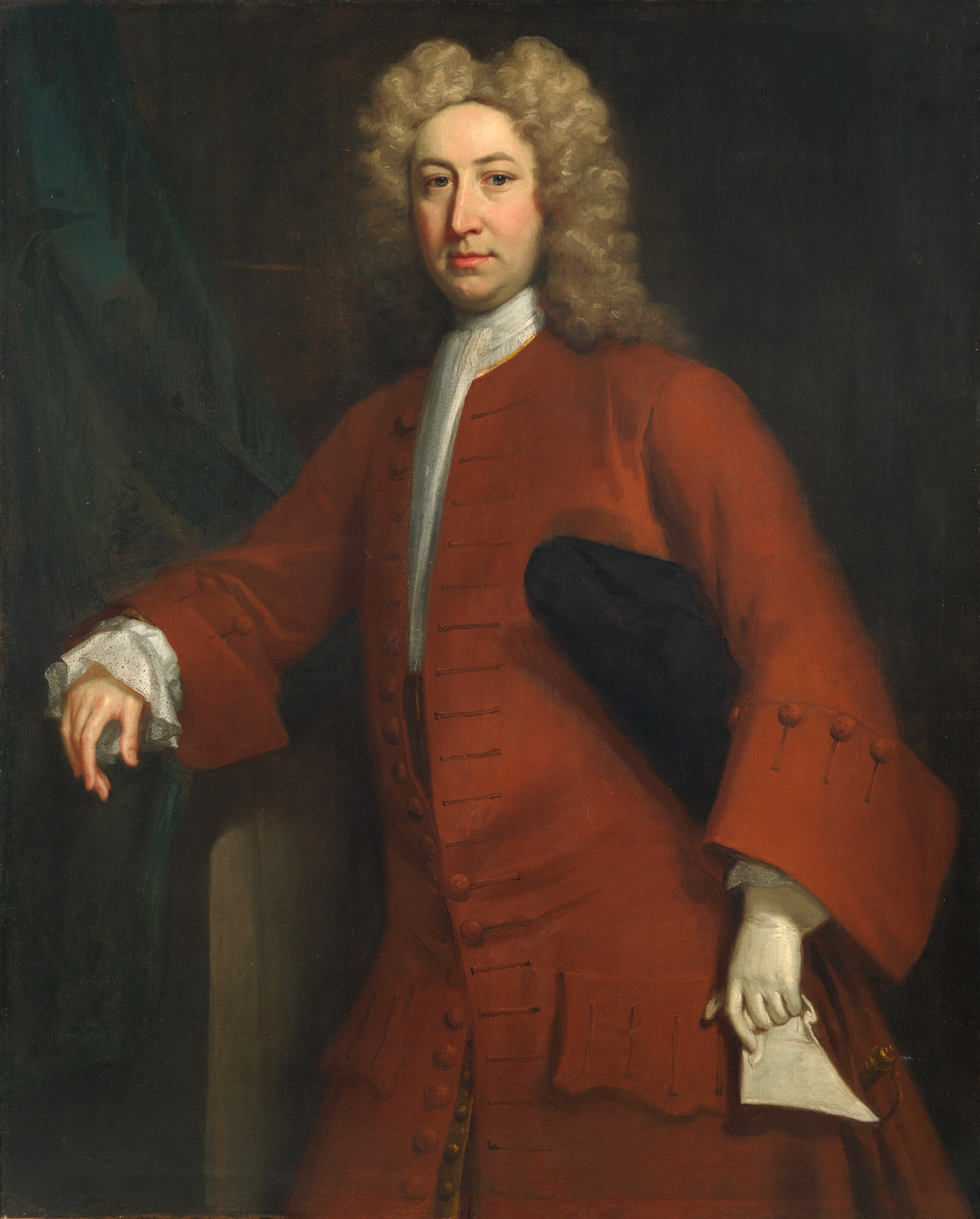 4th of Parsloes Manor, who succeeded to the Tithe of Fanshawe on the death of his father John Fanshawe (1662–1699). Thomas Fanshawe married Frances Clerke (d. 1725), daughter of Rev. William Clerke of Thame. Their daughter Frances Fanshawe (1720-1795) married Rev. Abraham Blackborne D.D. (1739-1797), vicar of Hampton (Middlesex) and Dagenham, and son of Abraham Blackborne Esq. and his wife Mary Levett, daughter of Lord Mayor of London Sir Richard Levett.